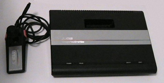 Photo of the Atari 7800 game console; could somebody please Photoshop this to look nicer (better)? I lack the skills to do it myself. ACupOfCoffee 10:19, 17 December 2006 (UTC)